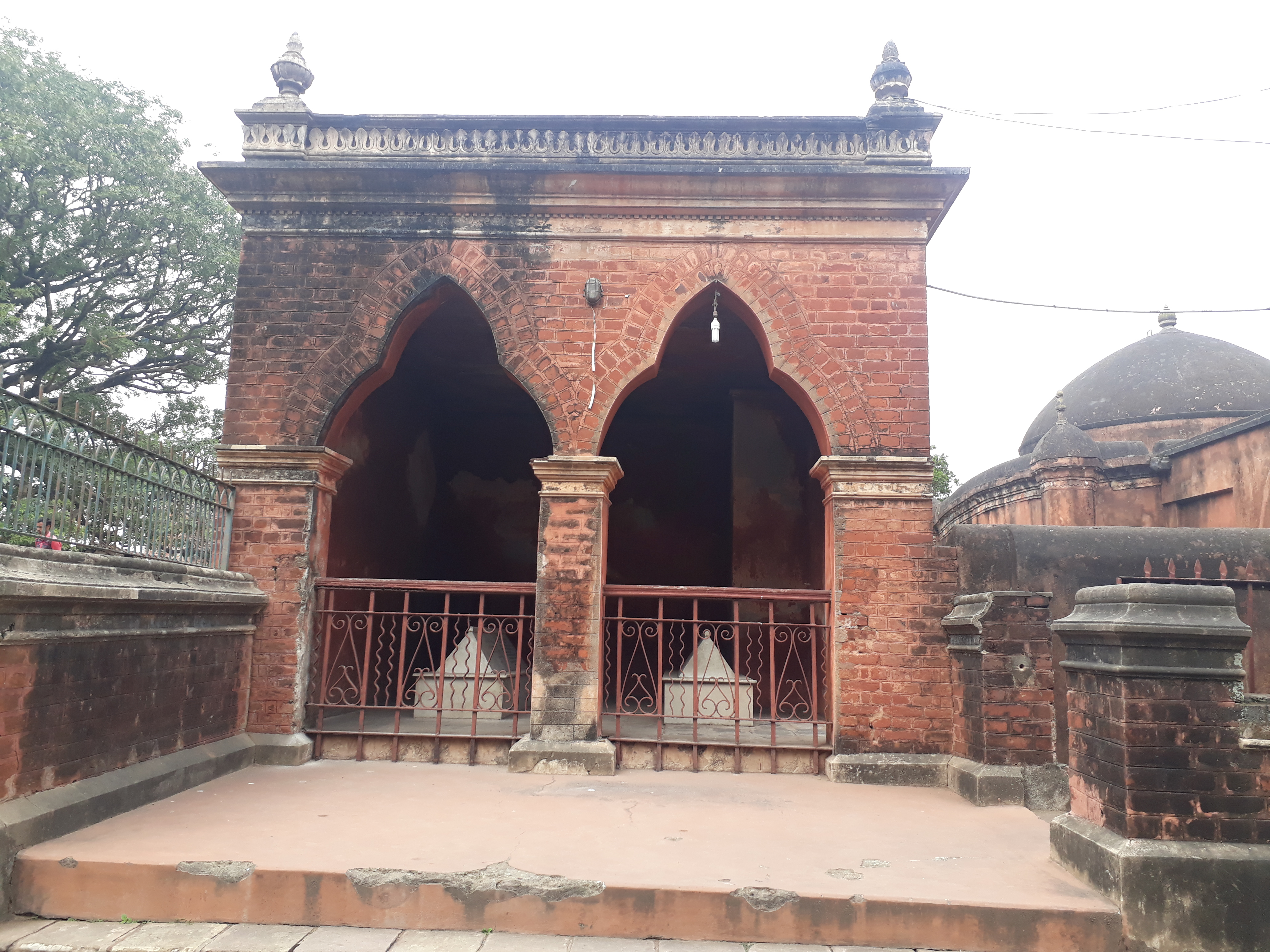 Tomb of Sher Afgan Khan and Qutbuddin, situated in Bahram Saqqa mosque complex, Bardhaman